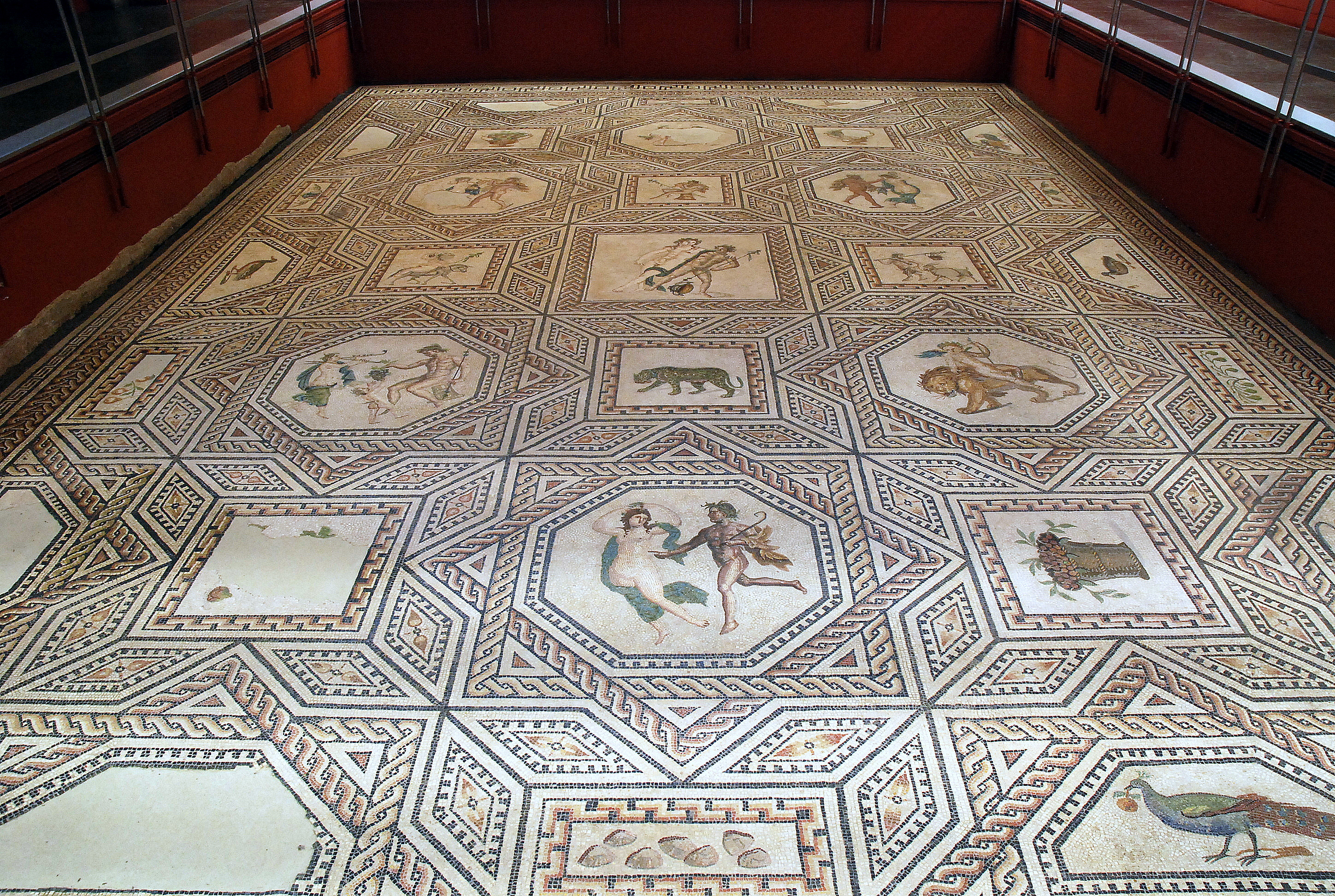 The Ancient Roman floor mosaic depicting dionysiac scenes (Dionysosmosaik), dating from the 220s AD. Exhibited in the "Römisch-Germanisches Museum" in Cologne (Germany).